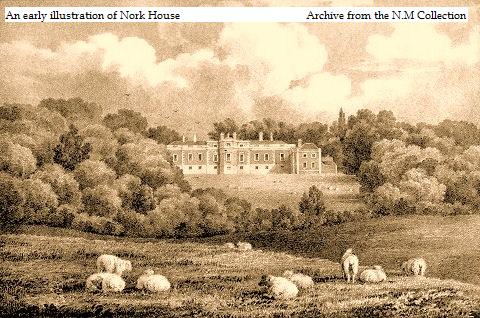 Nork House, in which Carter redesigned for the Lord Arden.